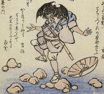 Tobikura (Nobusuma, a monstrous flying squirrel) from Kyōka Hyaku Monogatari